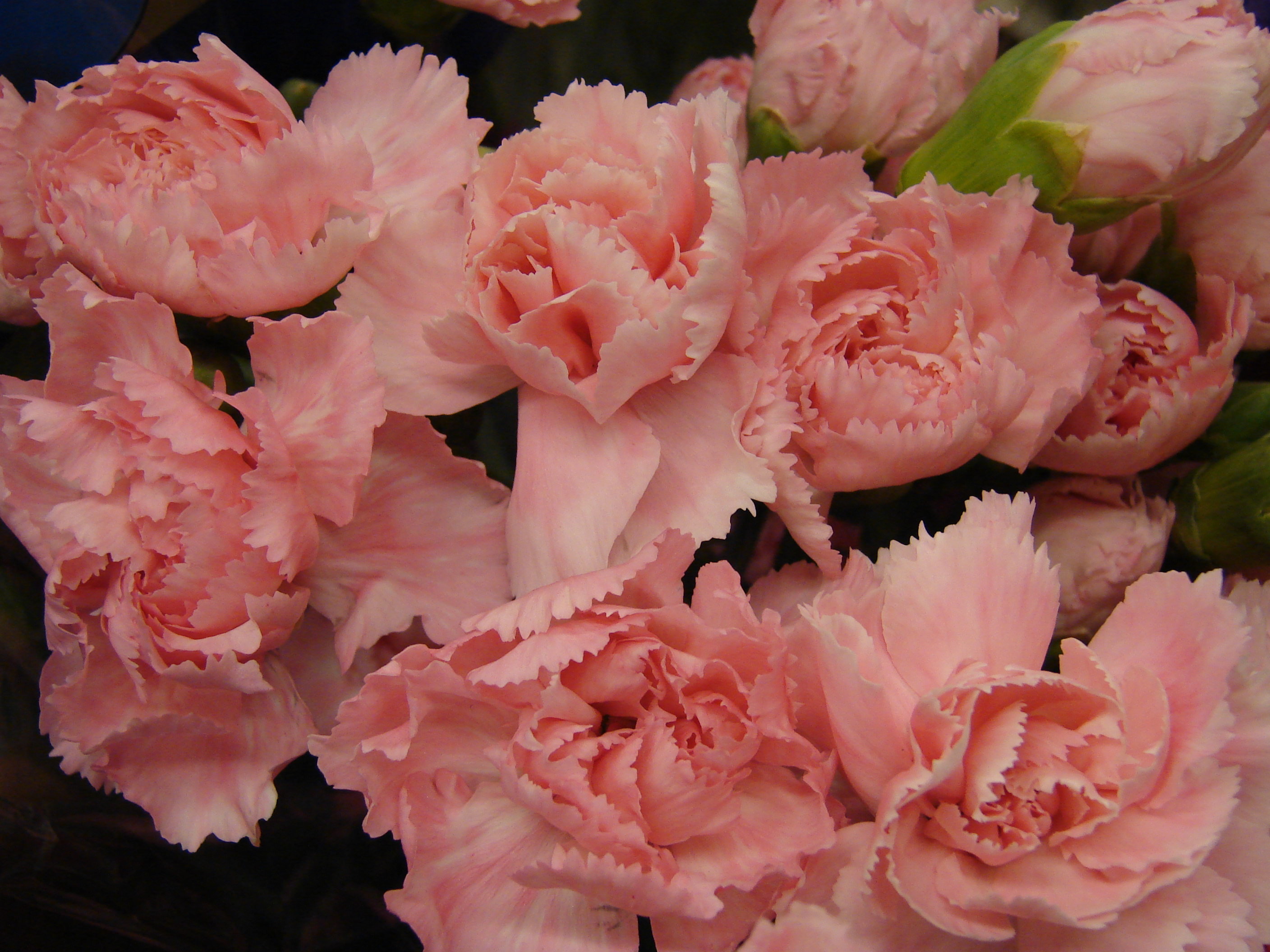 Dianthus caryophyllus (flowers pale pink). Location: Maui, Foodland Pukalani